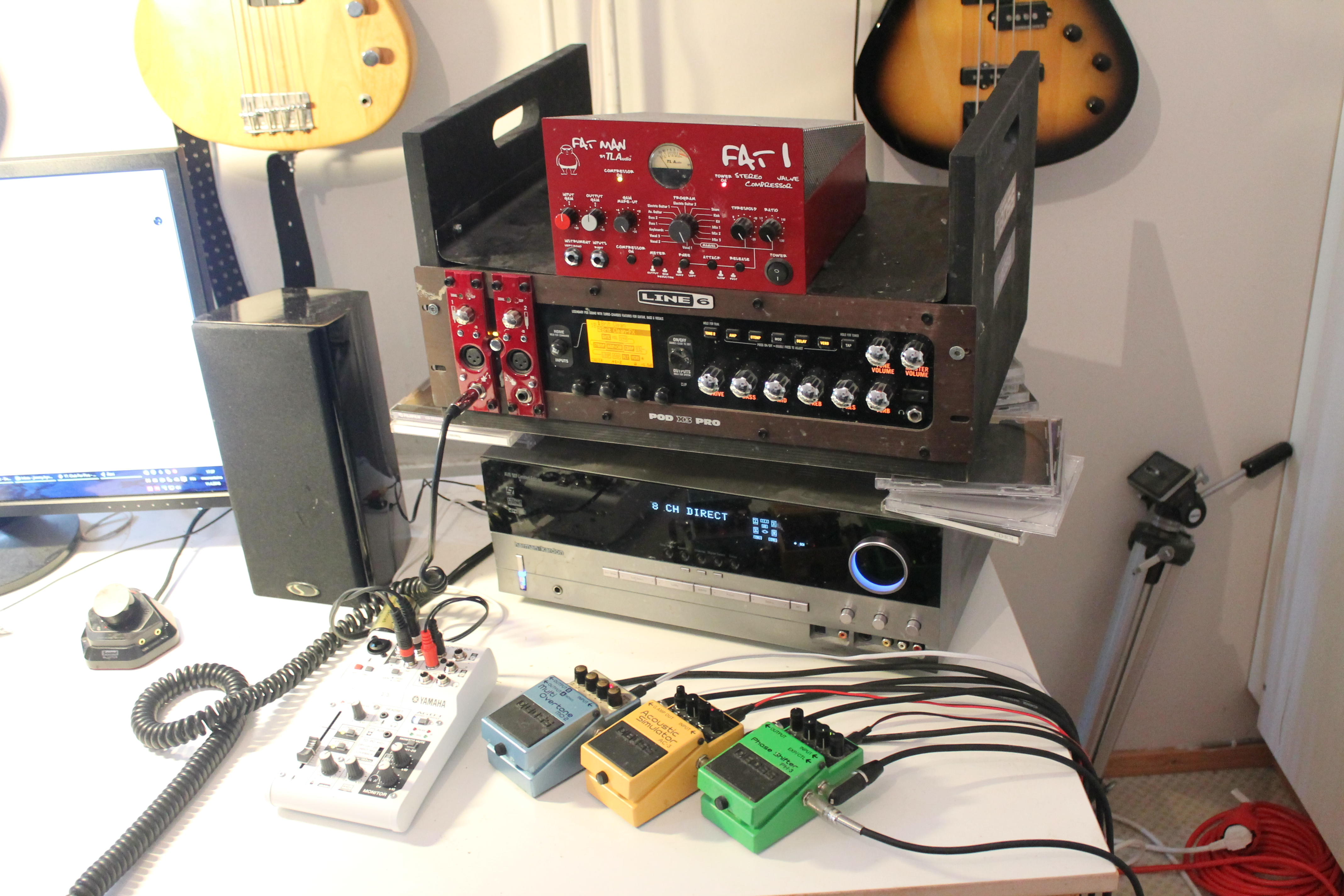 Home studio equipment.